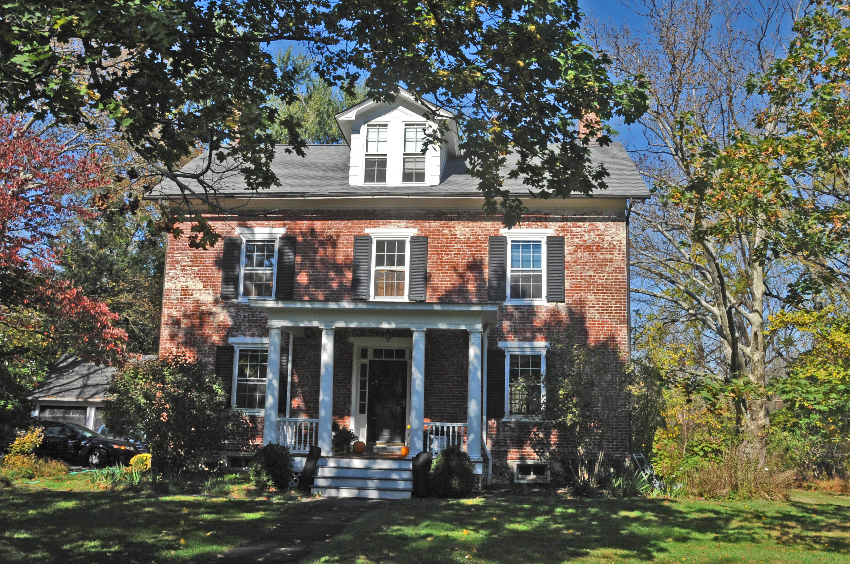 1840 VERNACULAR GREEK REVIVAL; OF THE 11 CONTRIBUTING HOUSES IN THE DISTRICT IT IS THE ONLY ONE WHICH IS BRICK AND IT IS THE OLDEST